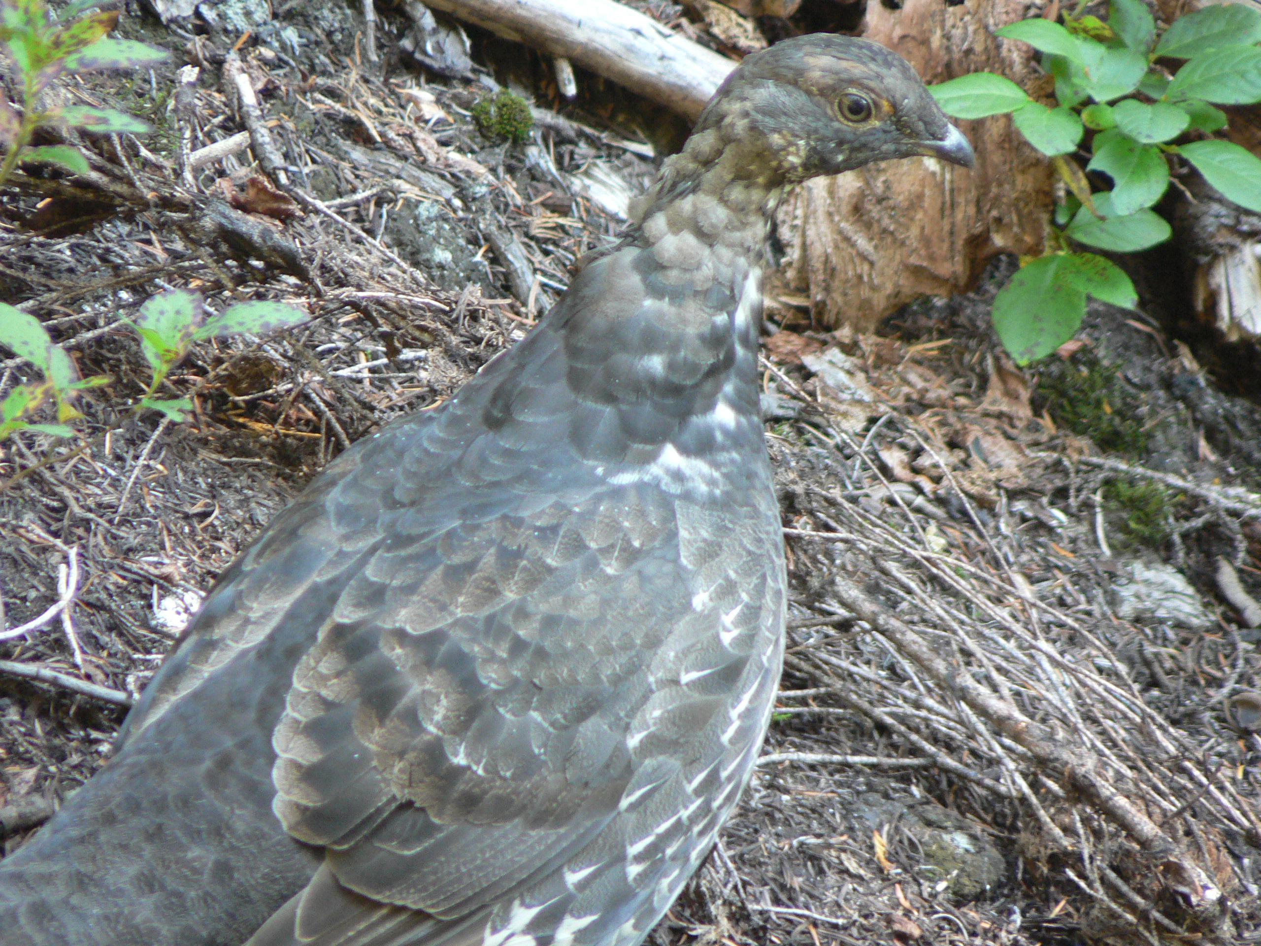 Sooty Grouse